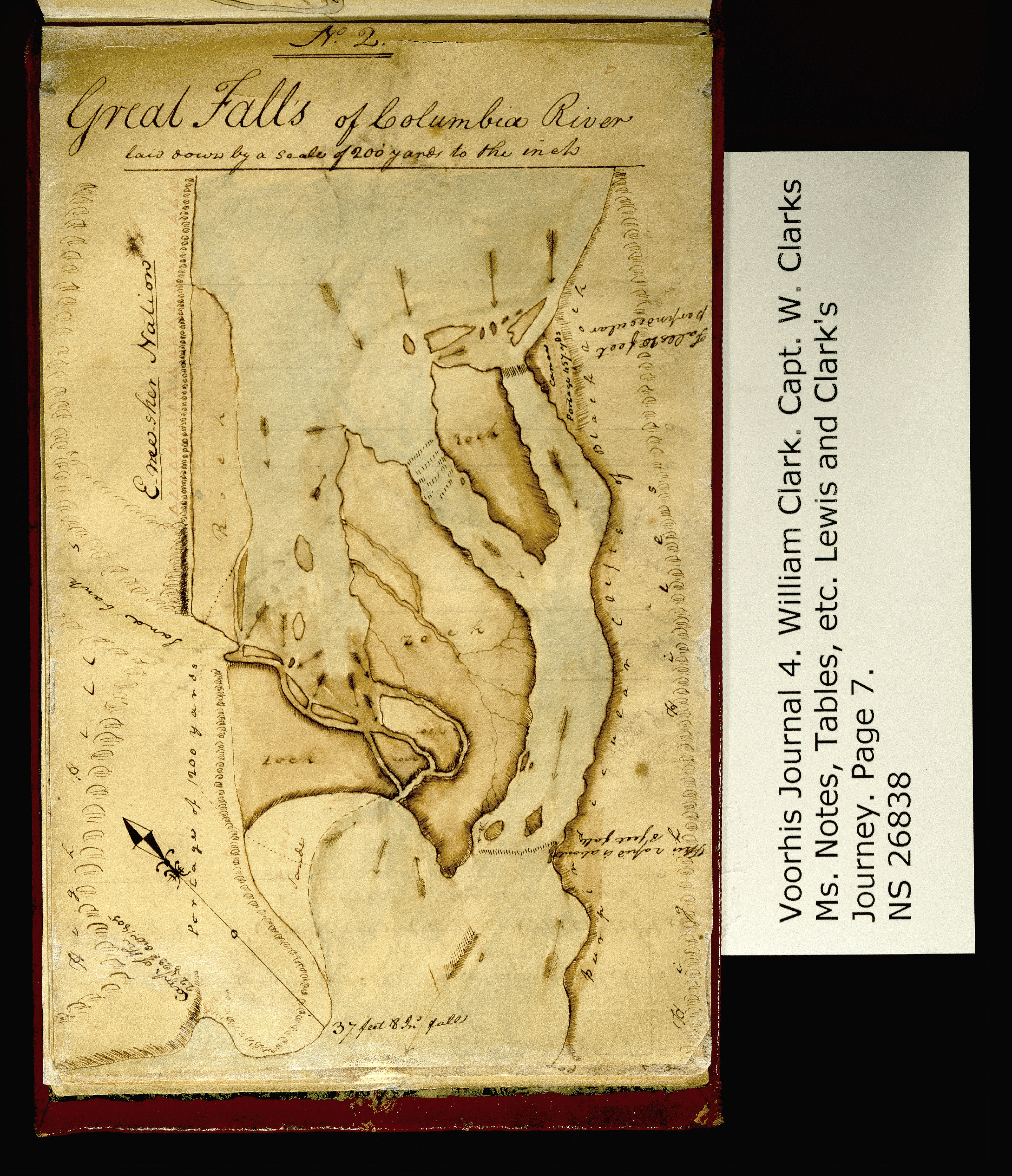 "No. 2. Great Falls of the Columbia River [map]. . . ." Drawing of "Great (Celilo) Falls of the Columbia River, Washington and Oregon."Title: Clark Family Collection: Volume 4. Voorhis Journal No. 4, page 7, October 22-23, 1806